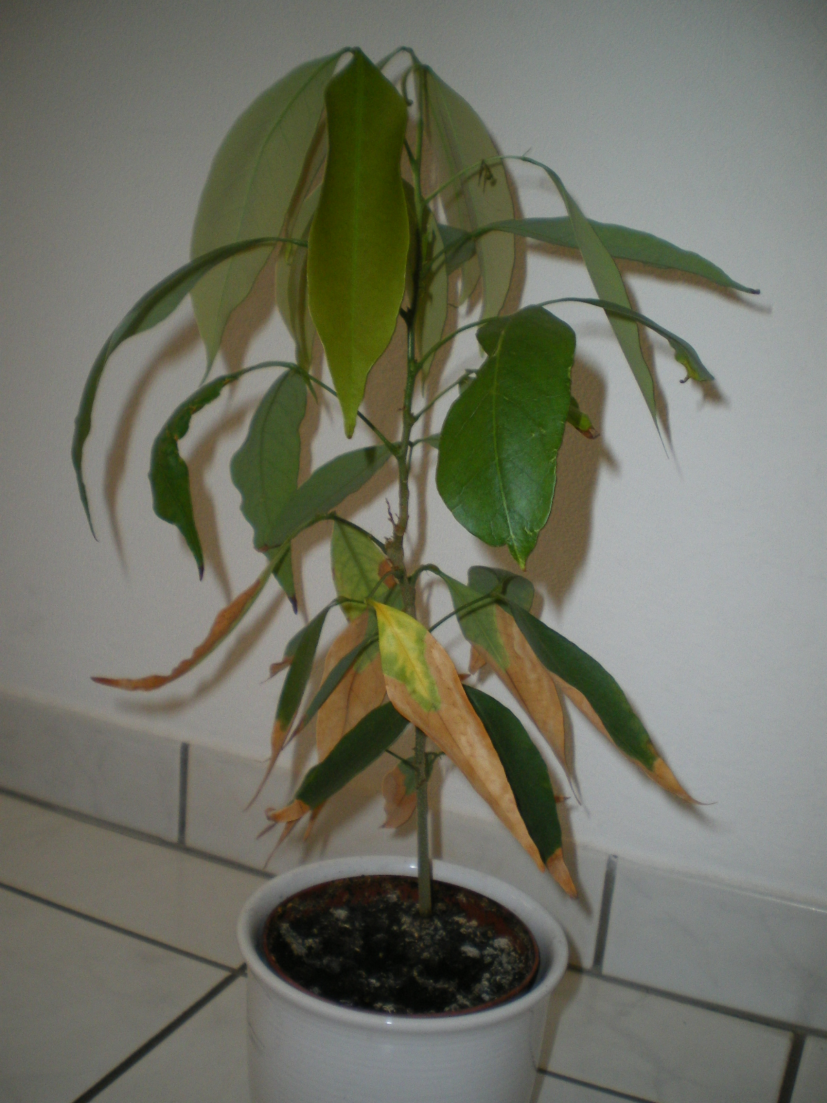 young Litschiplant